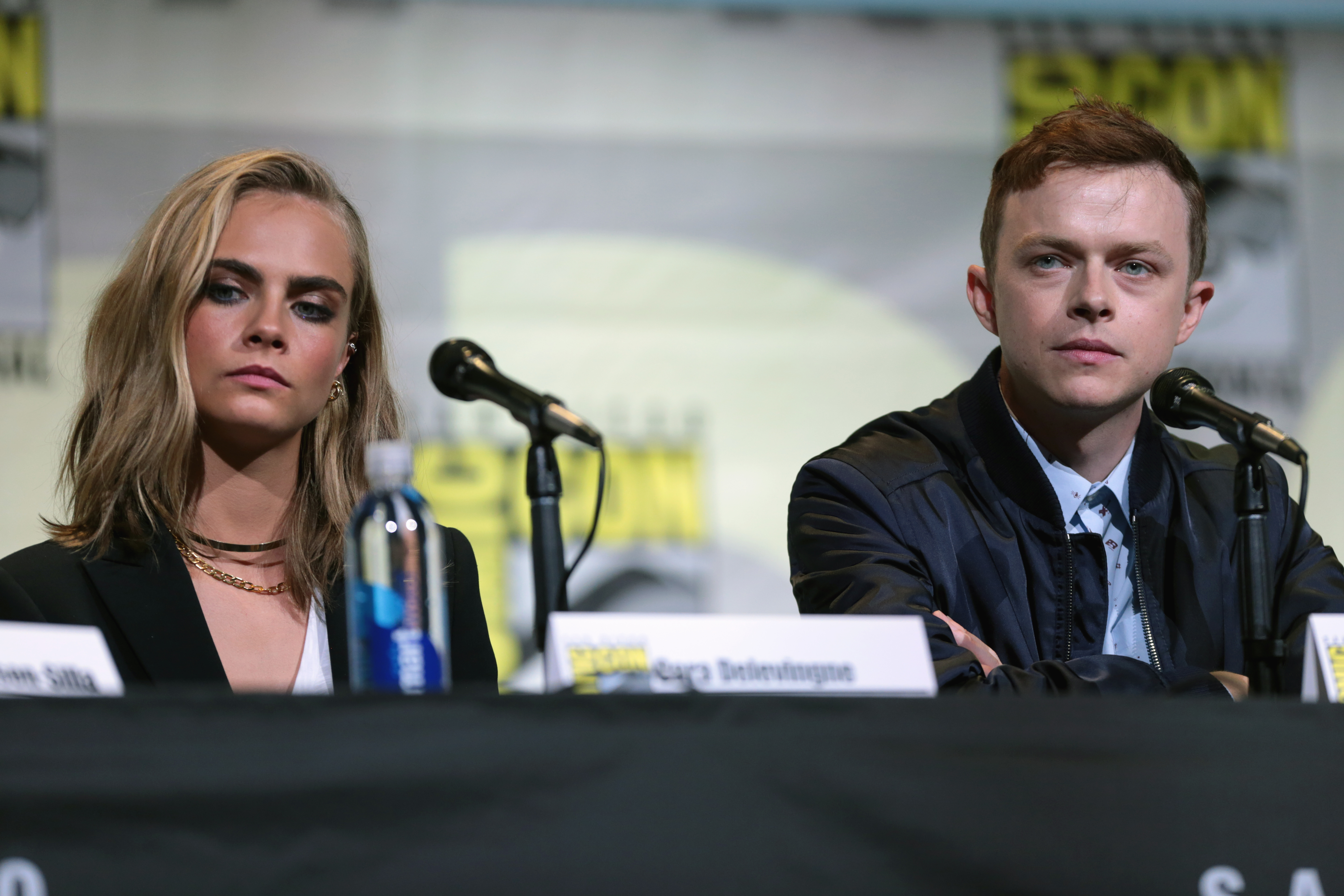 Cara Delevingne and Dane DeHaan speaking at the 2016 San Diego Comic Con International, for "Valerian and the City of a Thousand Planets", at the San Diego Convention Center in San Diego, California.